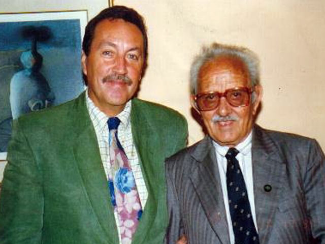 Con José Ernesto Monzón,el cantor del paisaje, uno de los valores de Guatemala